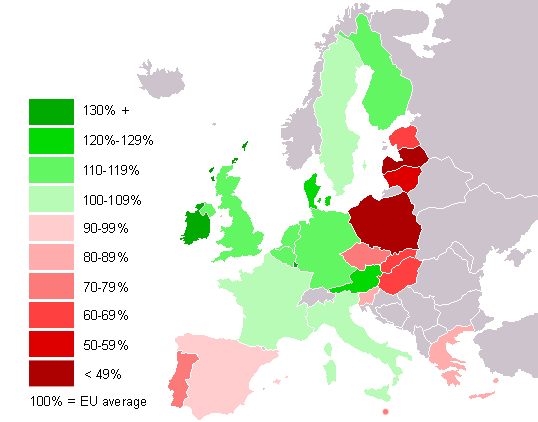 Map of GDP per capita (PPP) of EU member states. Based on their GDP per capita PPP when EU avg.100%